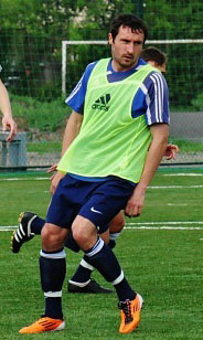 Yevhen Shapoval, Ukrainian footballer, during the game for FC Metalurh Zaporizhya reserves